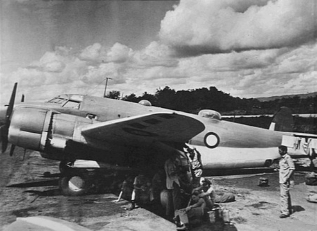 Aircrew and servicing personnel who travelled on the Lockheed Ventura aircraft of No. 37 Squadron RAAF which escorted the Supermarine Spitfire aircraft of No. 452 Squadron RAAF during the move of the squadron from Sattler airfield, near Darwin, NT, to Morotai Island in the Halmahera Islands, Dutch East Indies. They are seen here at Merauke, Dutch New Guinea, the first stop on the long flight.